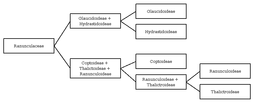 Cladogram of Ranunculaceae according to APG II system).